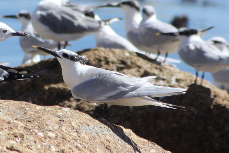 Sandwich Tern Thalasseus sandvicensis in winter, Cape Town, South Africa.